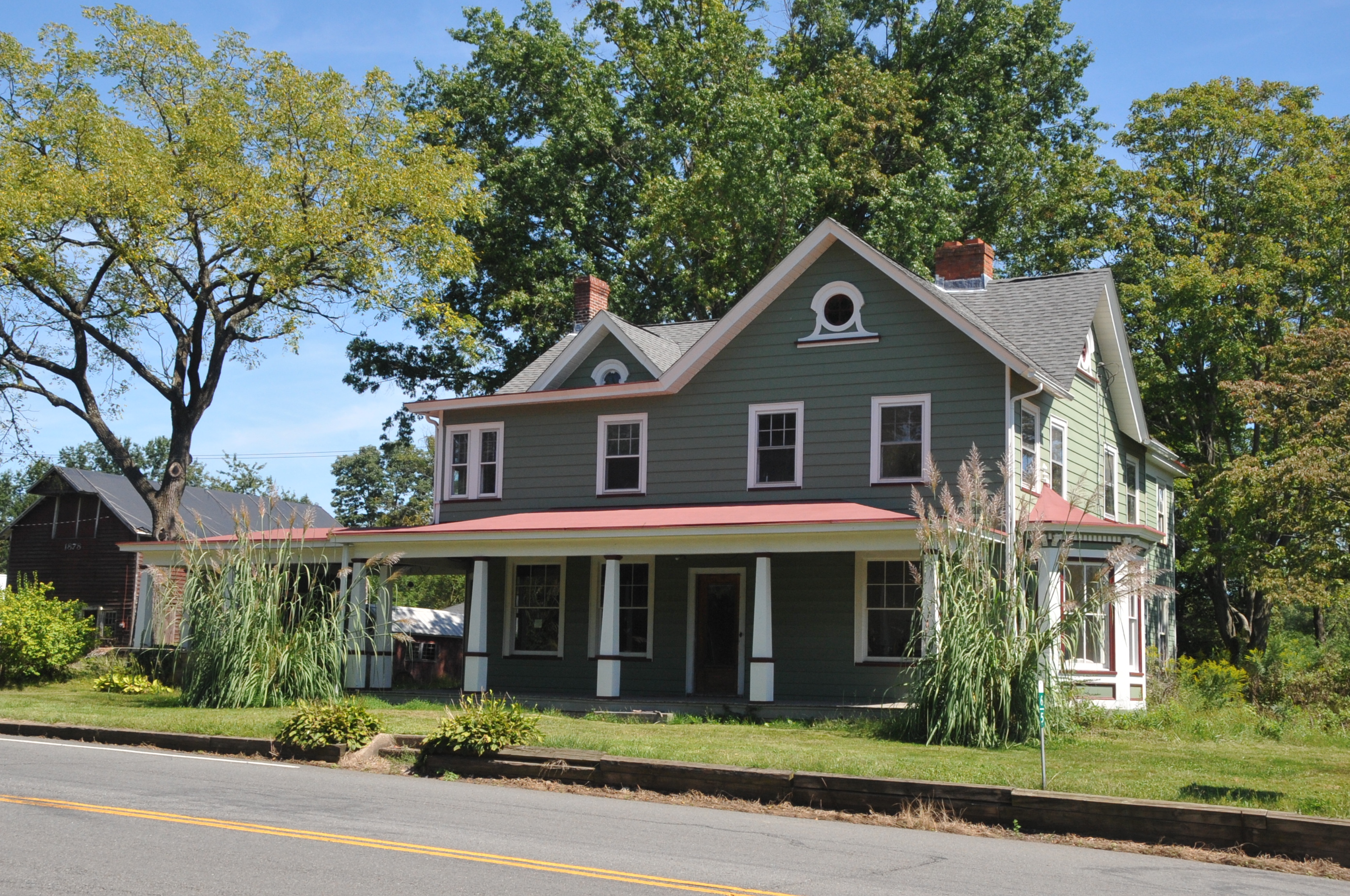 SITE OF TAVERN OF THE RINGO FAMILY AND WHERE THE SONS OF LIBERTY MET IN 1766; LOCAL POLITICAL CENTER DURING THE REVOLUTION